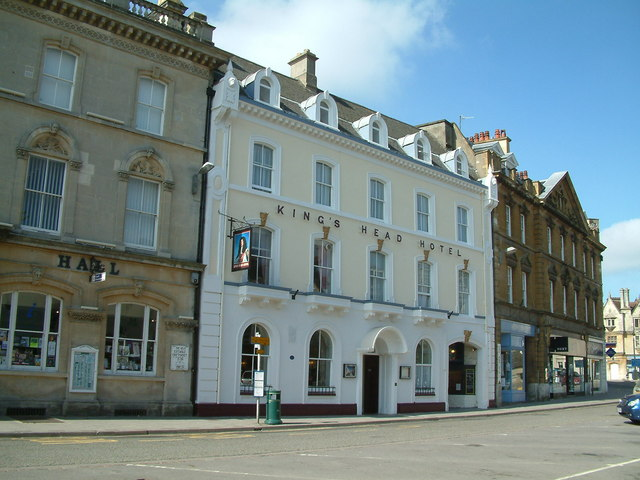 Cirencester, The King's Head Hotel. Another of the town's fine old buildings